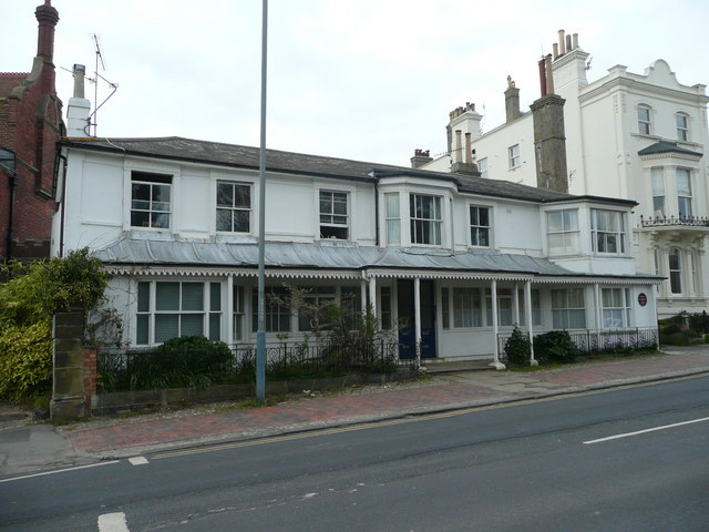 Home of Nye and Barton, Bishop's Down In the 19th century this was the home and workshop of two of the most famous men producing Tunbridge ware - Edmund Nye and Thomas Barton. Tunbridge ware is the generic name for turned-wood objects and marquetry - see